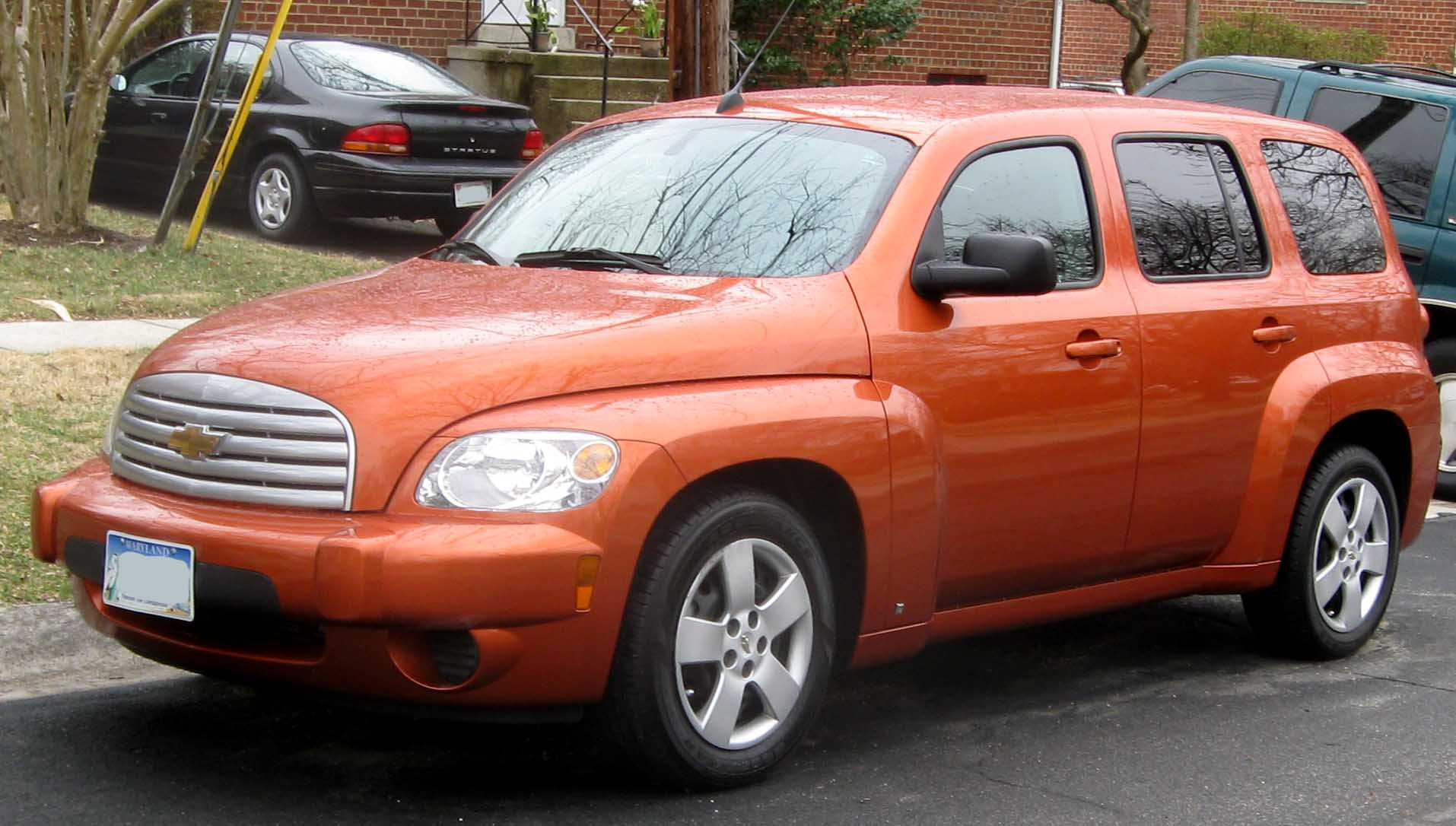 2006-2009 Chevrolet HHR photographed in Rockville, Maryland, USA.